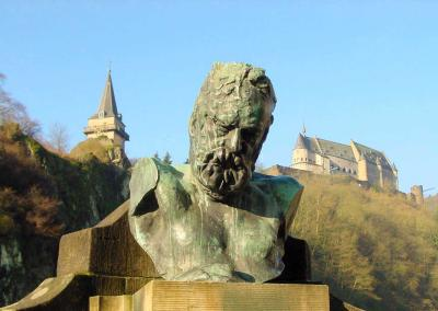 Bust of Victor Hugo by Auguste Rodin at the bridge in the center of Vianden. Background: the Hockelstuerm on the left, the castle on the right. Photo: Christian Ries, AMVHV, 2002.